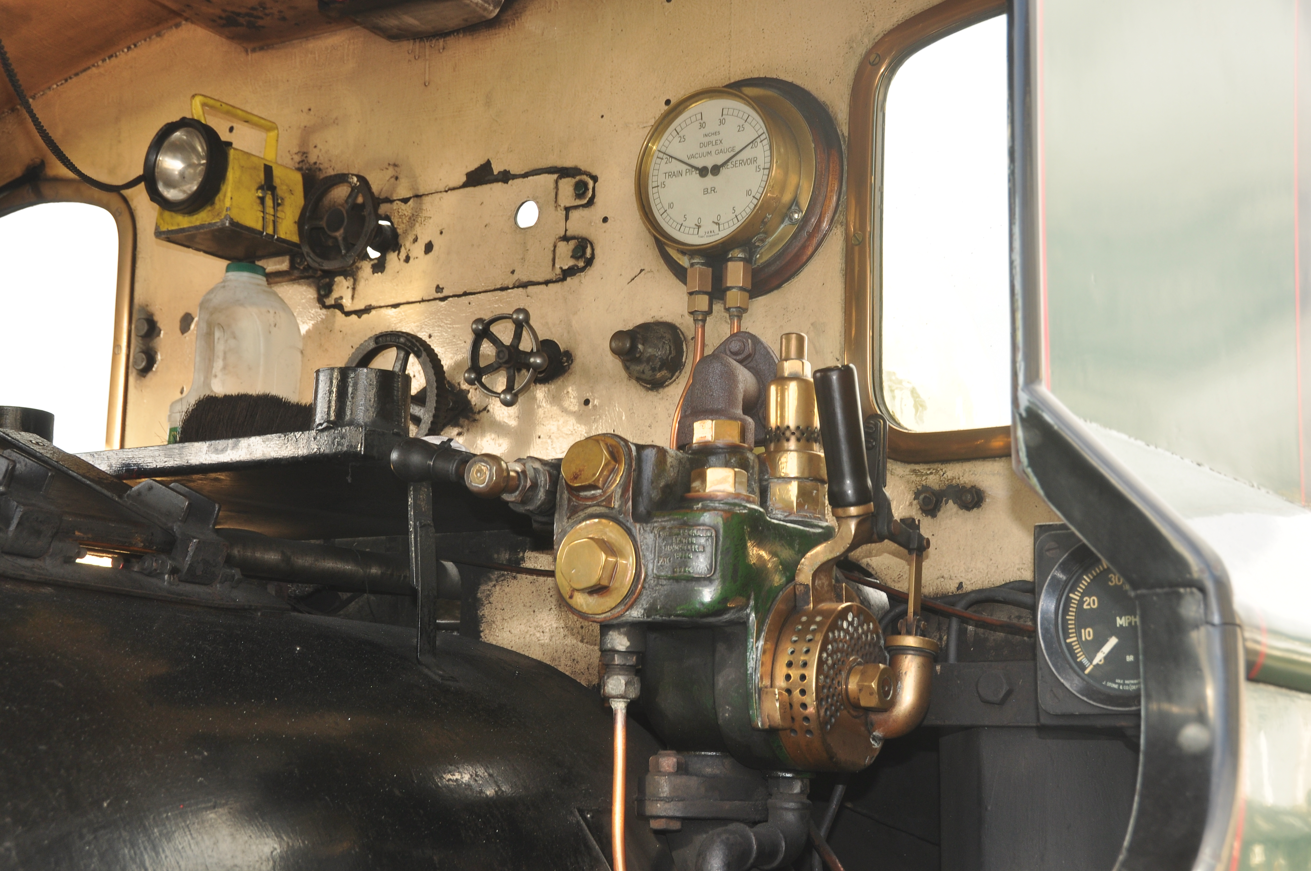 Earl of Merioneth at Porthmadog Harbour railway station